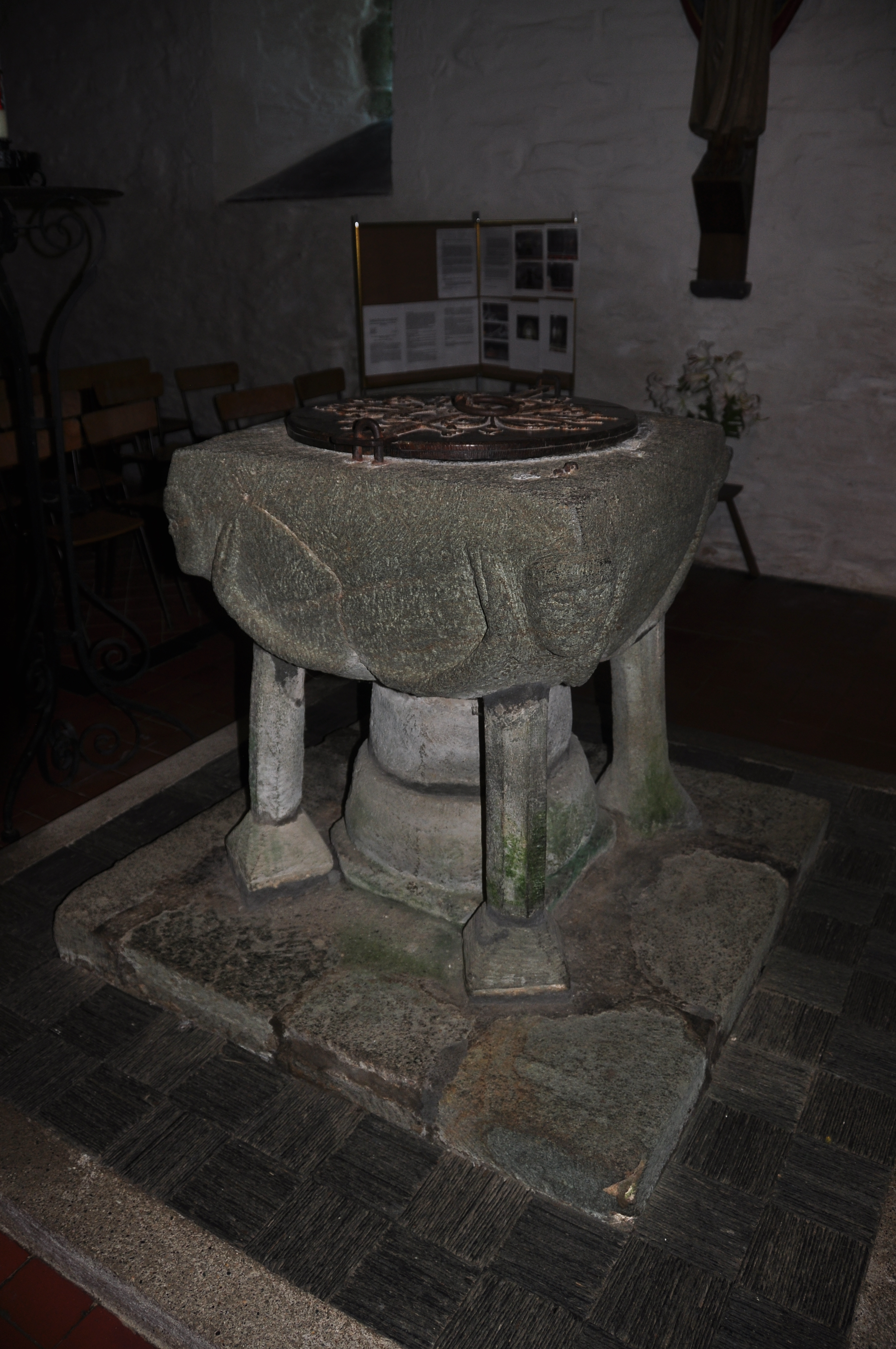 Font in St Materiana's Church, Tintagel